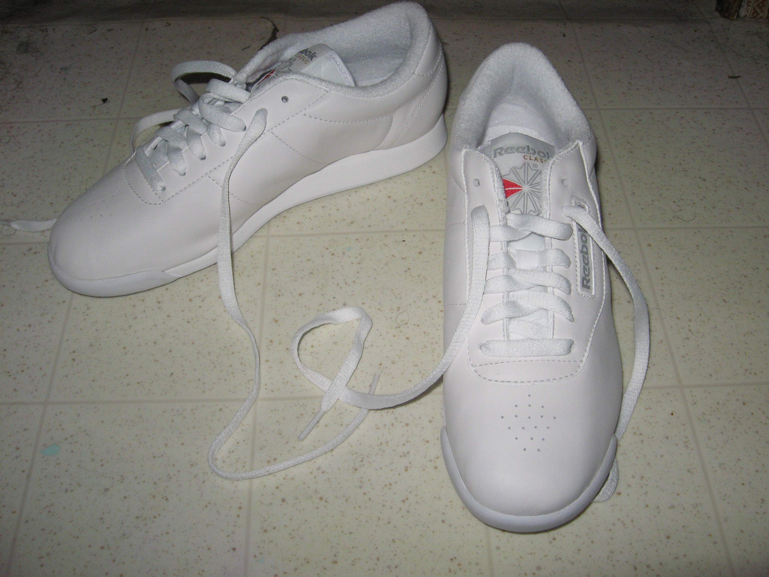 A pair of white Reebok Princess sneakers.